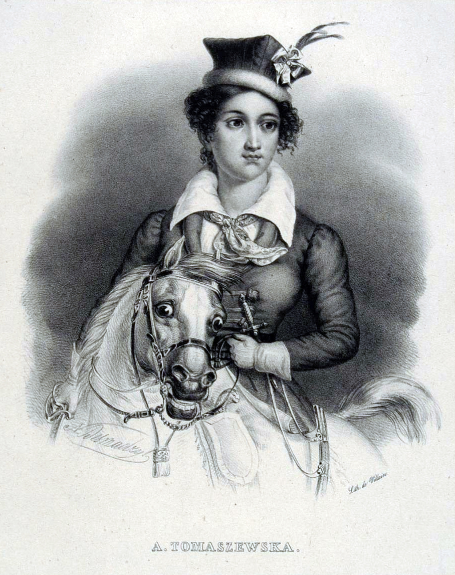 Portrait of Antonina Tomaszewska from the book "Die Polen und die Polinnen der Revolution vom 29. November 1830. oder hundert Portraits derjenigen Personen, die sich in dem letzten polnischen Freiheitkampfe ausgezeichnet haben ... Lfg. 1-20"